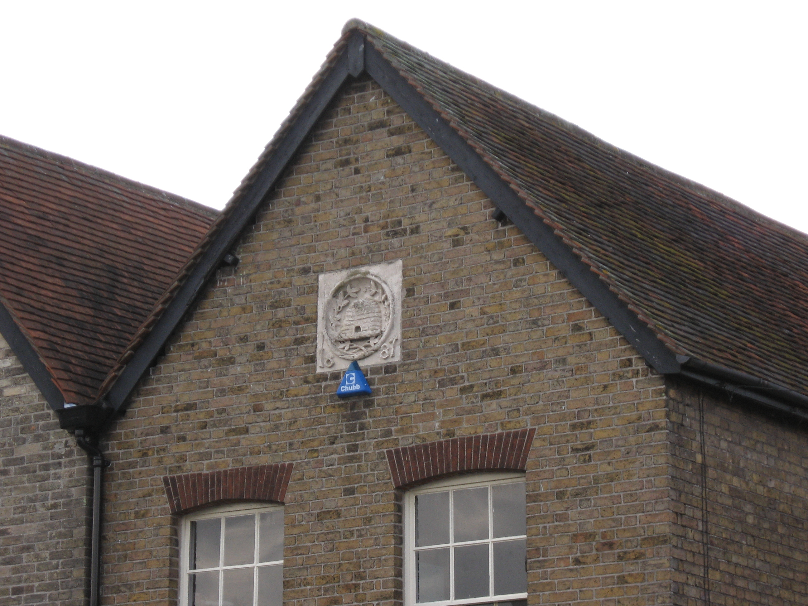 Earls Colne (UK) Coop building detail: year it was built?